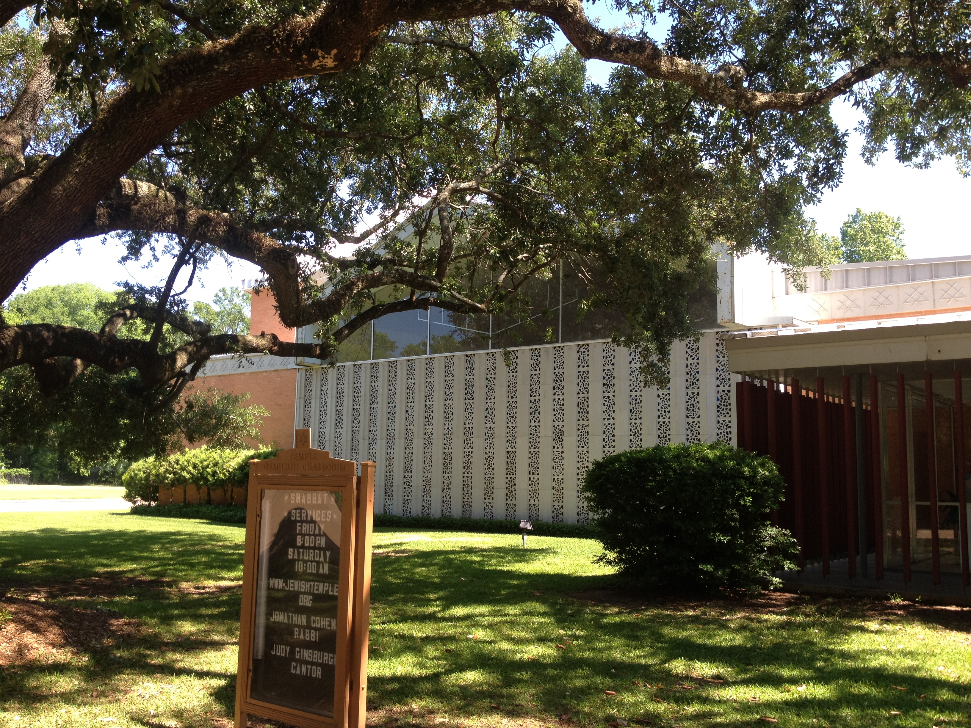 Exterior of Congregation Gemiluth Chassodim